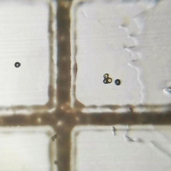 Pollens of Galphimia gracilis